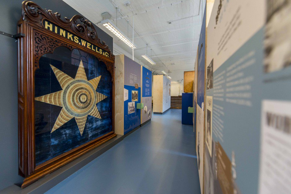 Exhibitions